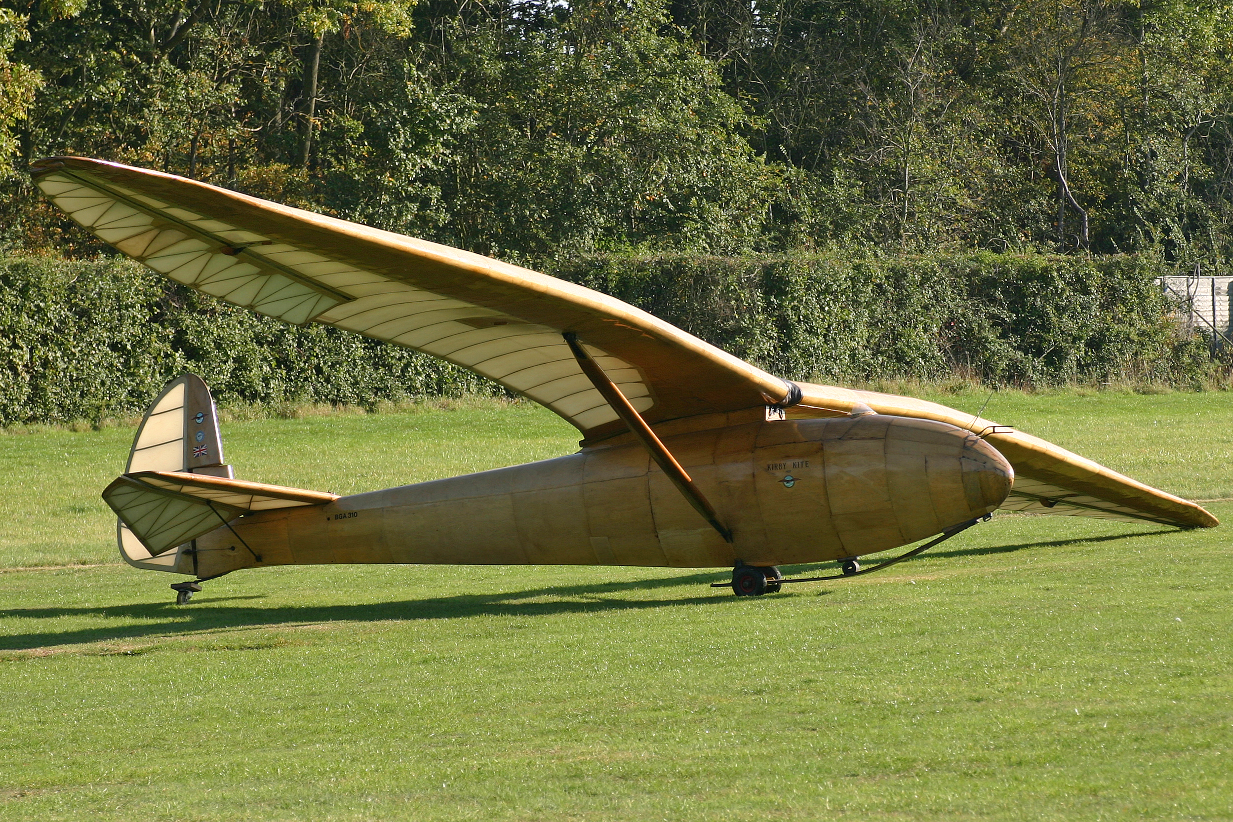 c/n 258B. Parked on grass near flightline. Old Warden 02-10-2011